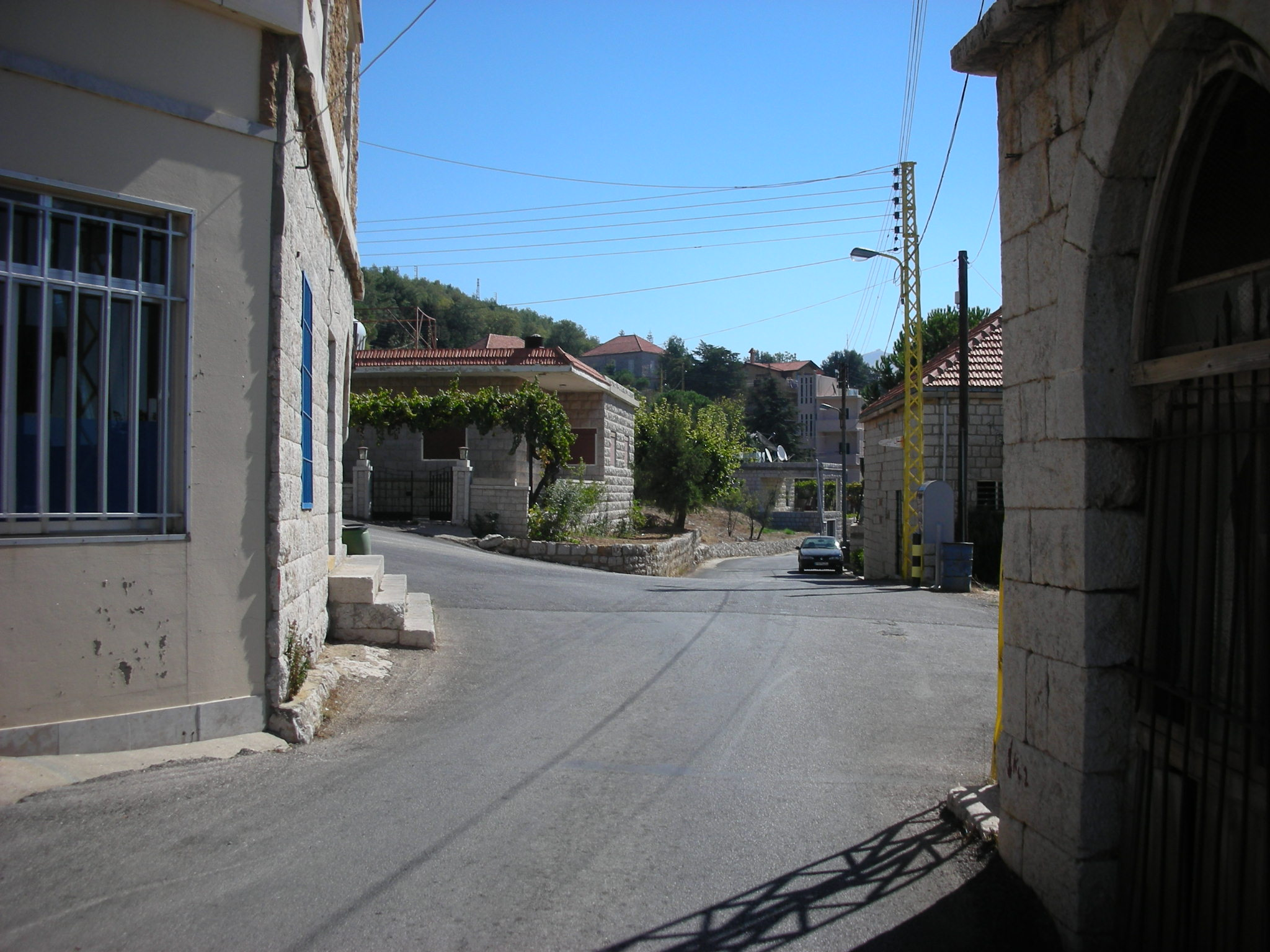 Kafarakab main street, Lebanon.